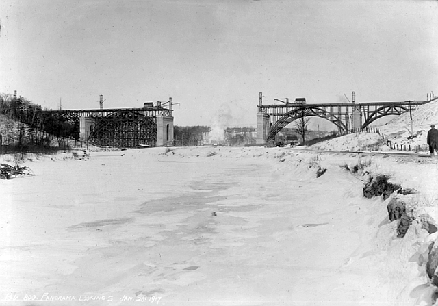 Don River looking south to Prince Edward Viaduct, Toronto, Canada.